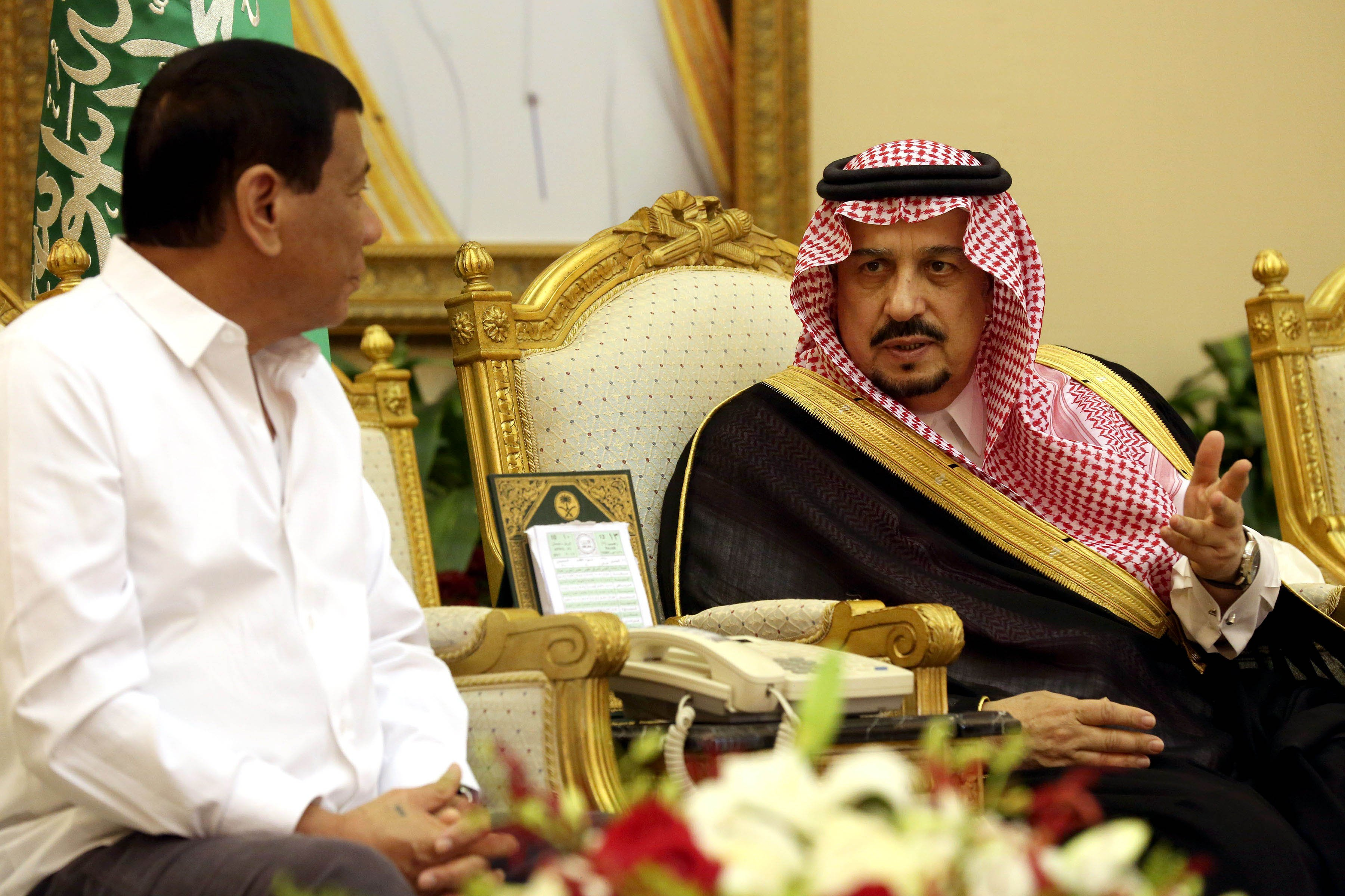 President Rodrigo Roa Duterte engages in a conversation with Prince Faisal Bin Bandar Al Saud, Governor of Riyadh upon his arrival at the Royal Terminal of the King Khalid International Airport in the Kingdom of Saudi Arabia on April 10, 2017. (Photo by Simeon Celi Jr./Presidential Photo)